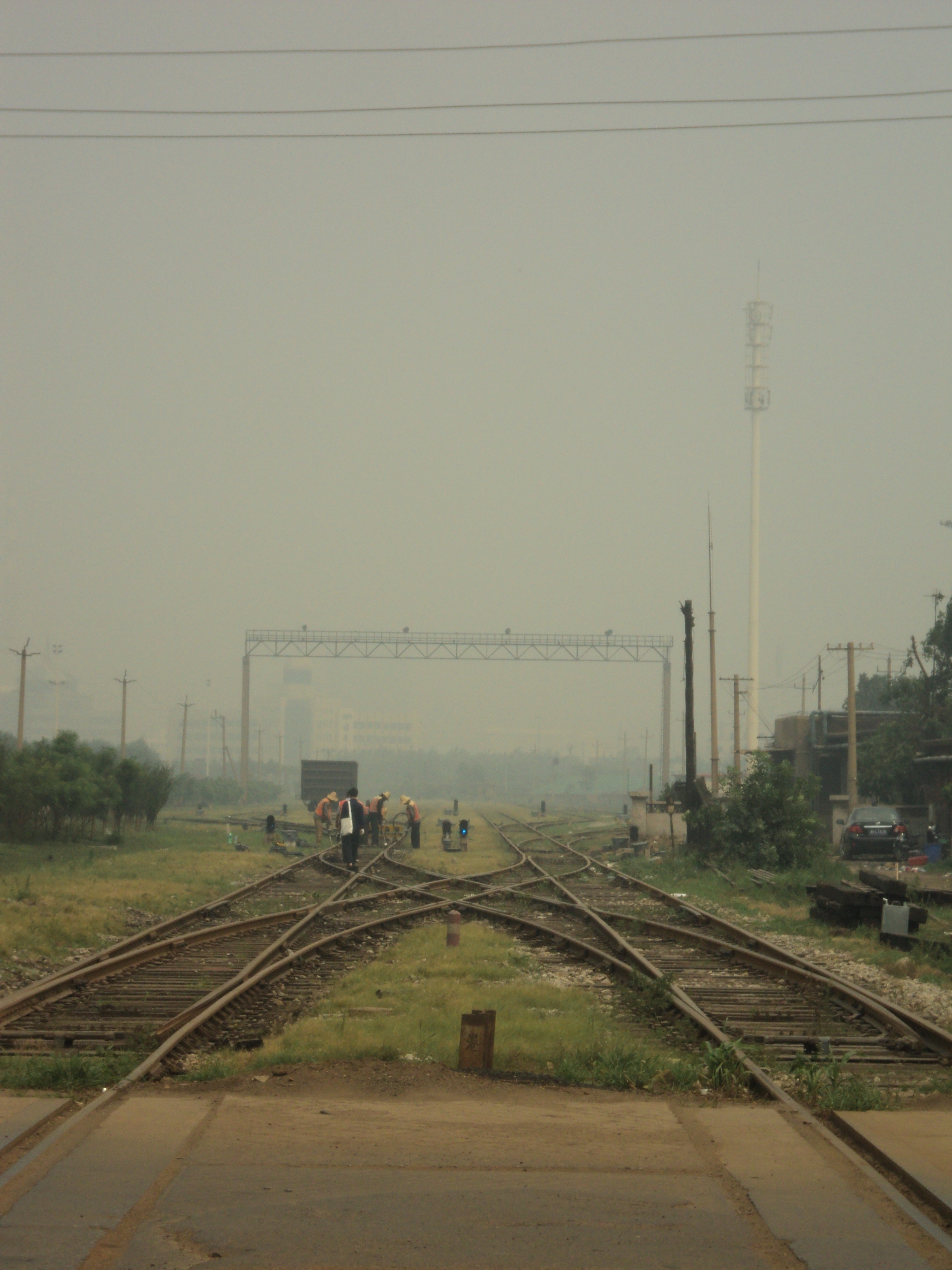 Internal Railroad in the Fourth Stevedoring Company area, at the Third Pier of Tianjin Port. A repair crew is doing maintenance work.